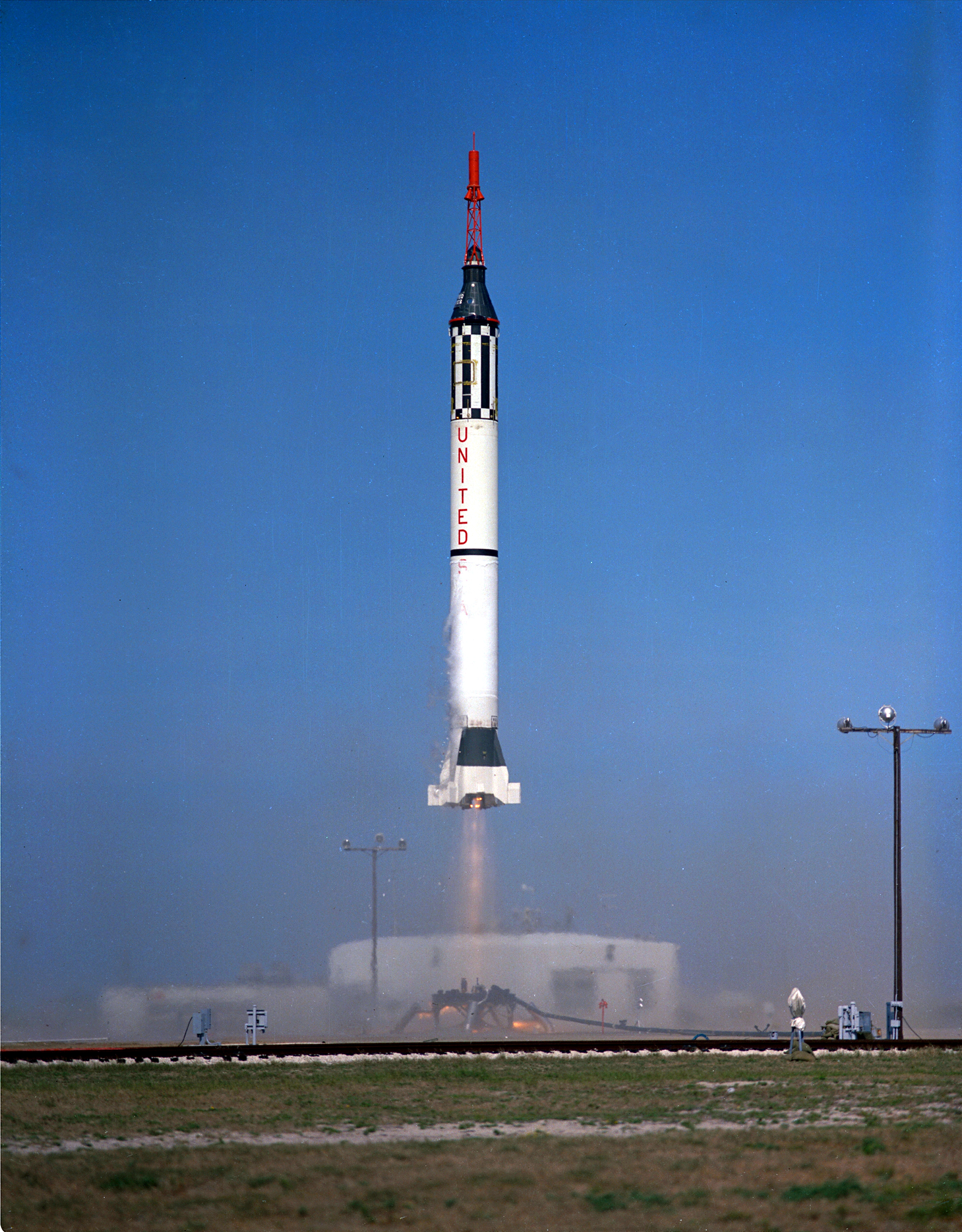 Mercury-Redstone 2 (MR-2) launch with chimpanzee Ham aboard. Monkeys had been flown into space before, but Ham was the first higher primate to test a spacecraft.